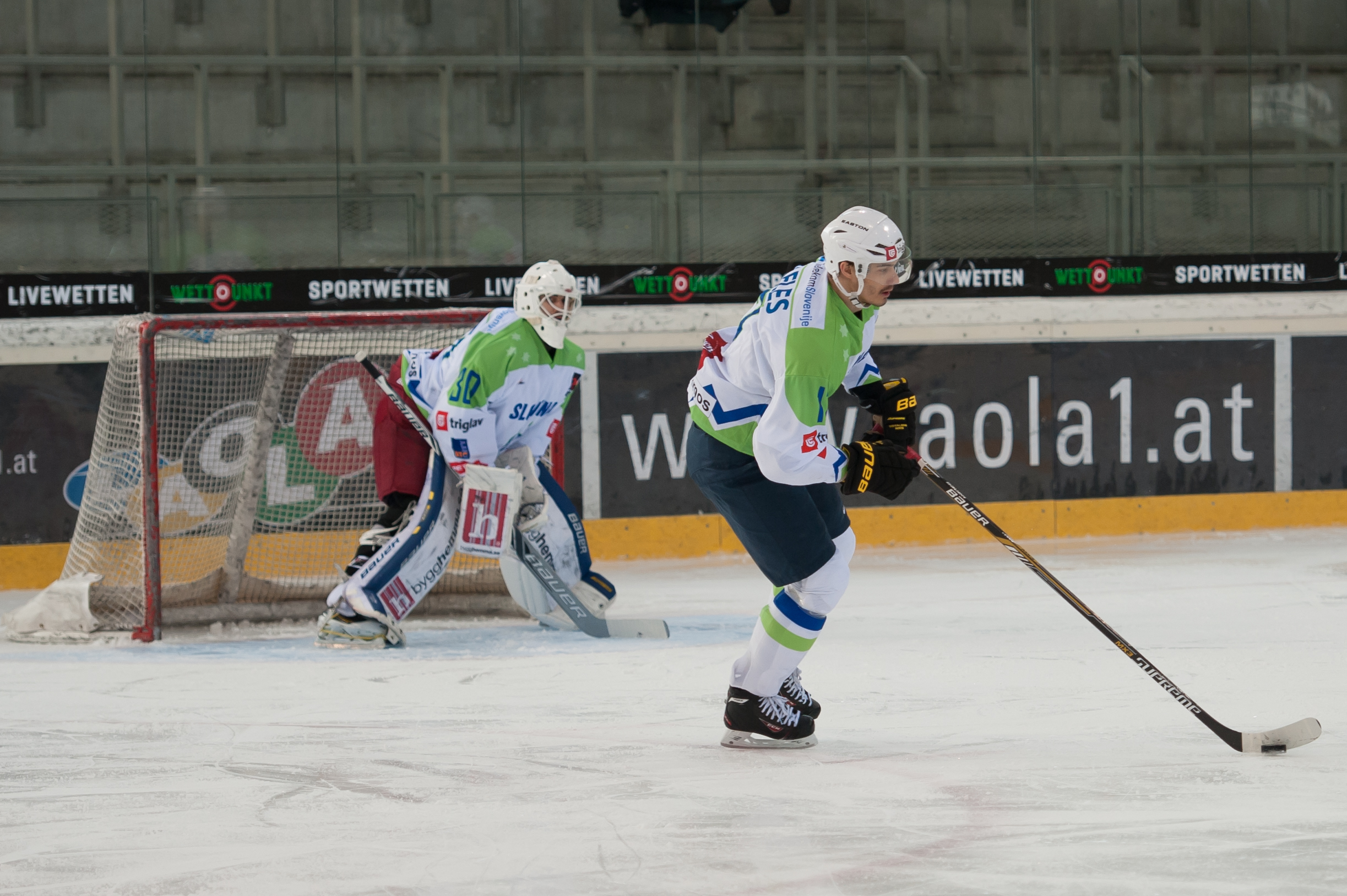 Euro Ice Hockey Challenge Vienna, February 7, 2015, Italy vs. Slovenia